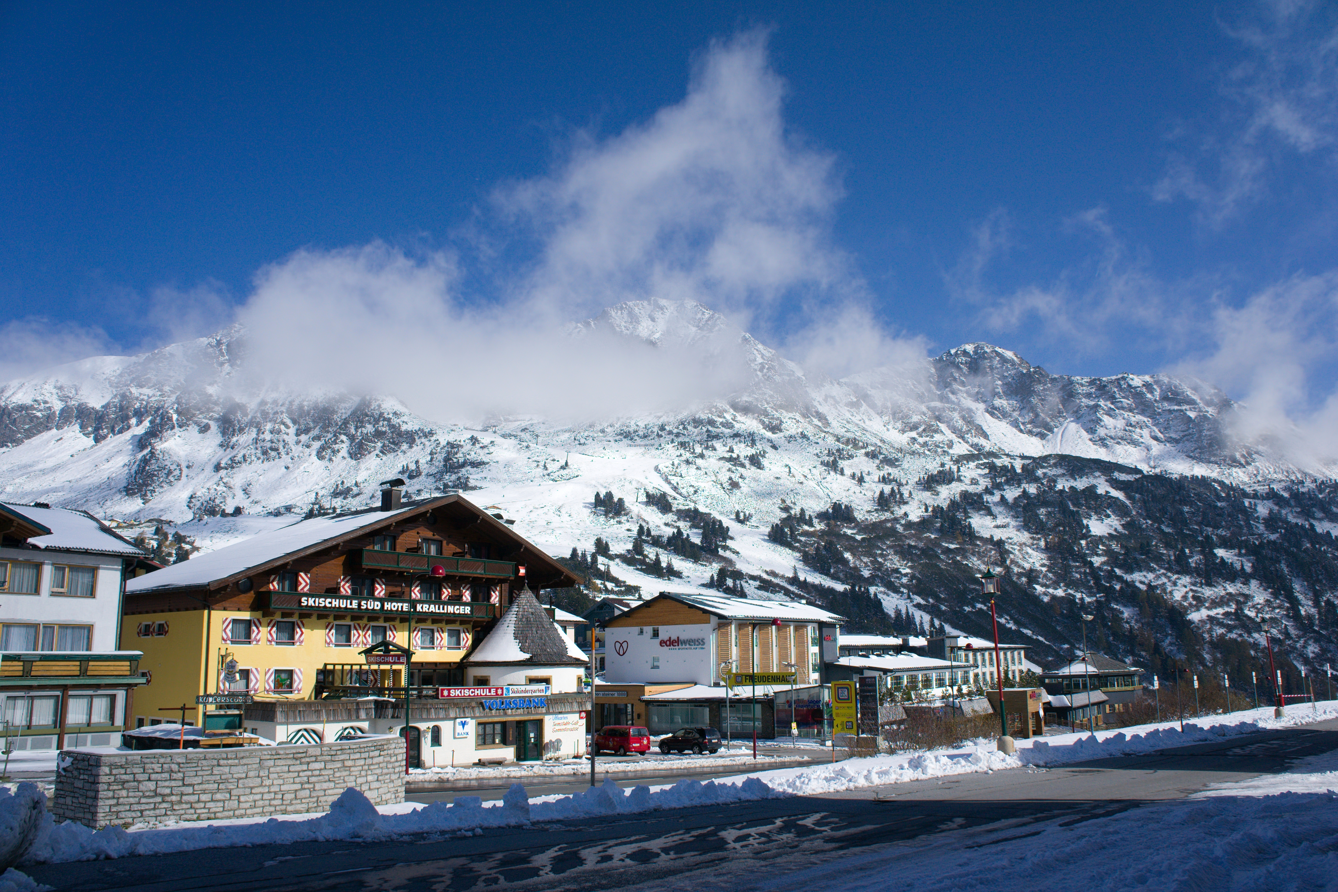 Obertauern Alps in Austria.